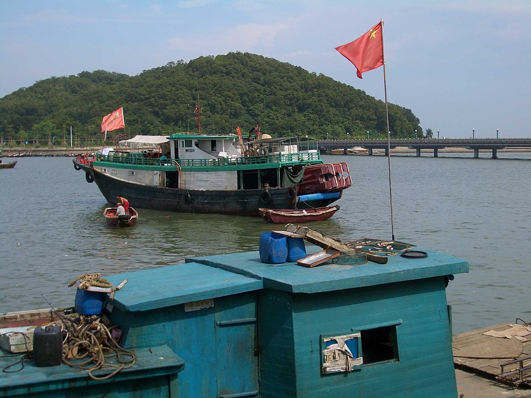 In the fishing harbor, city of Zhuhai. Guangdong, with Yeli Island in the Background.